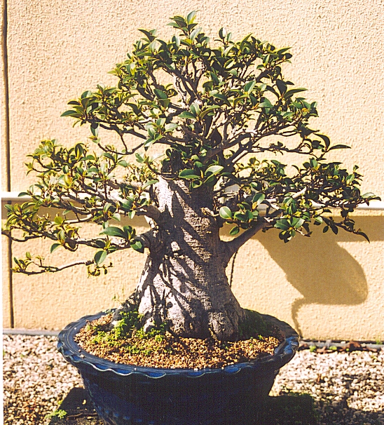 Ficus rubiginosa as bonsai, bonsai exhibit - Auburn botanic gardens, Sydney